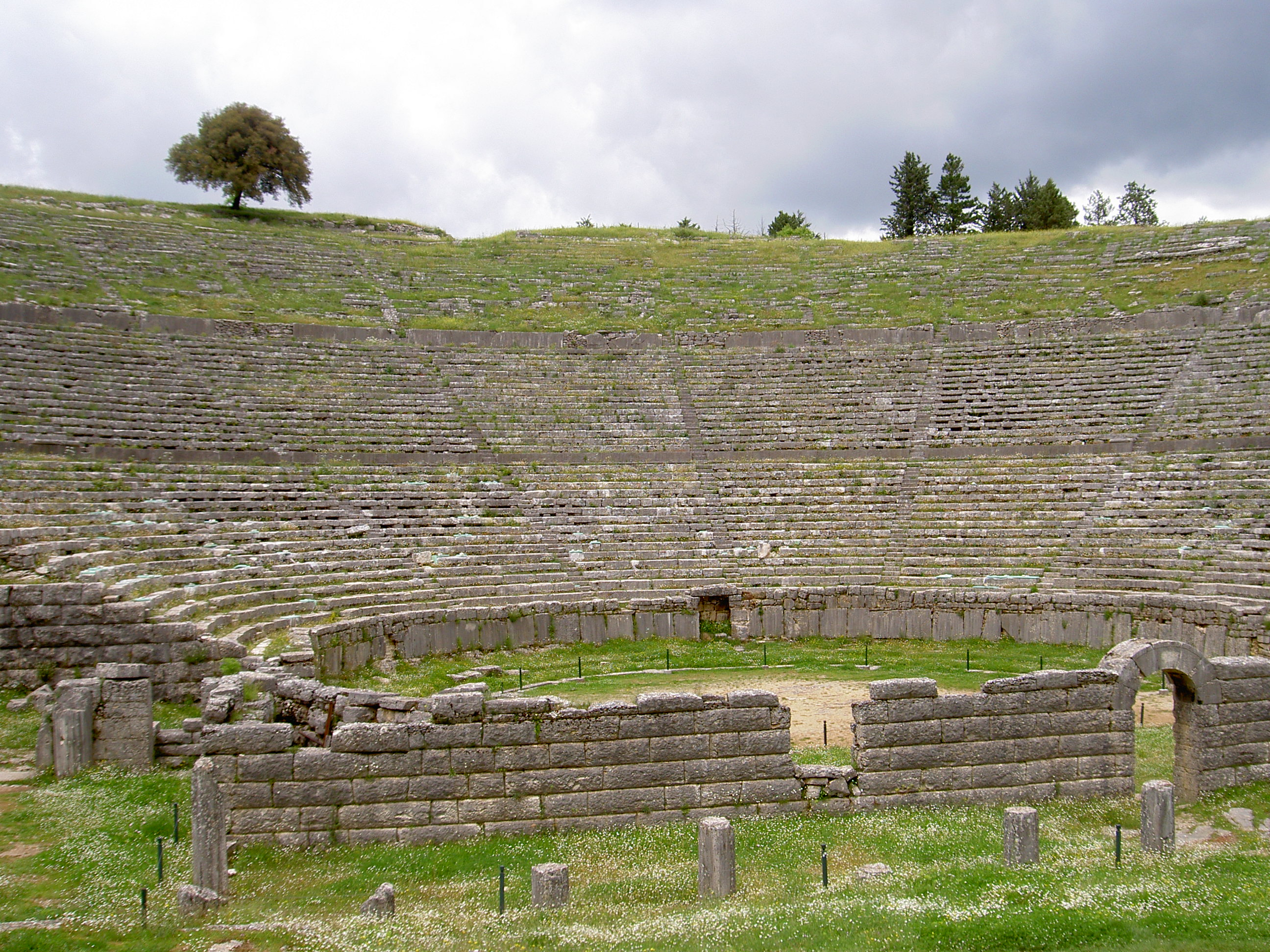 Ancient theatre at Dodona, Epirus, Greece Ancient theatre at Dodona, Epirus, Greece